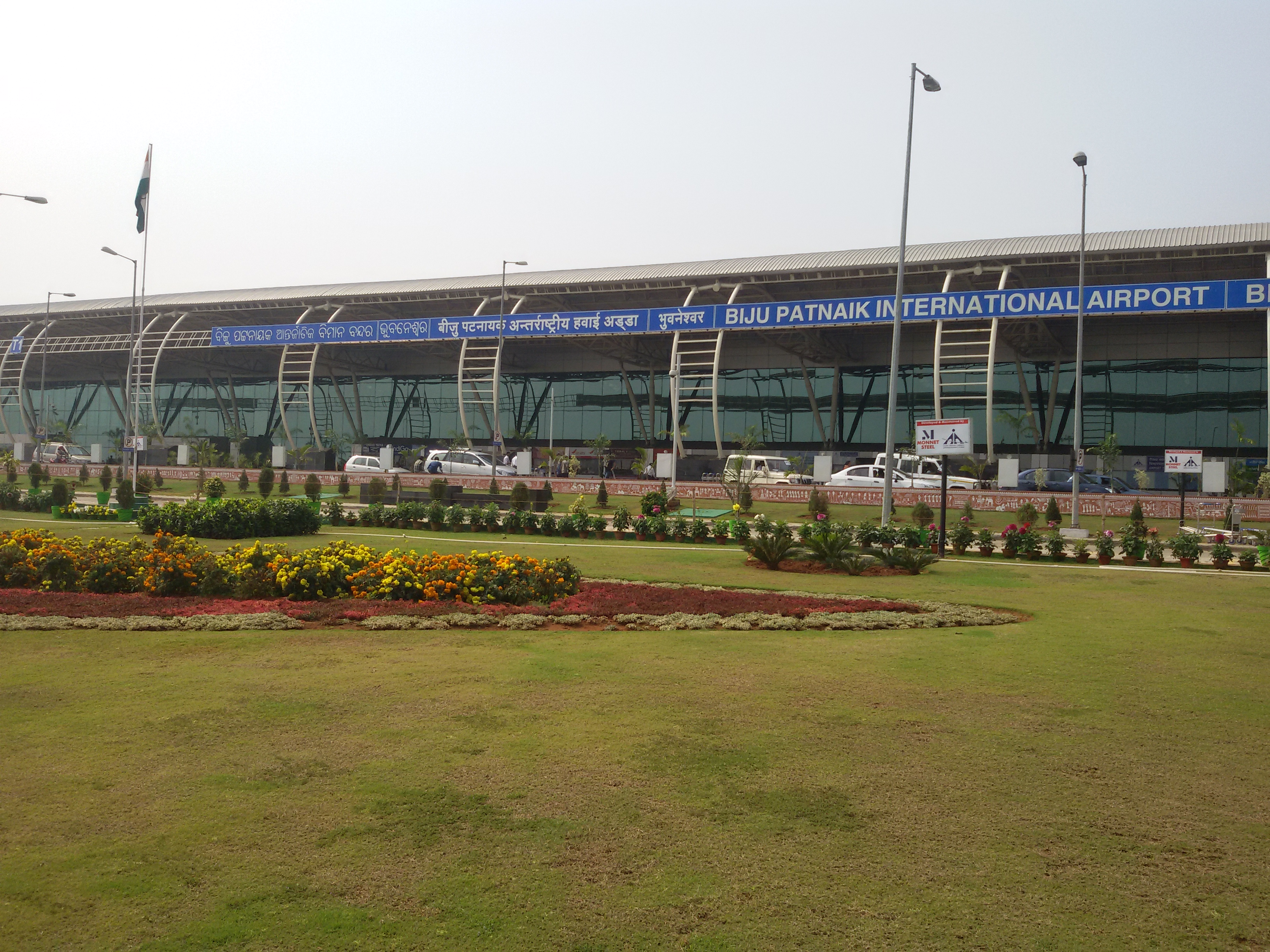 Biju Patnaik Airport Bhubaneswar